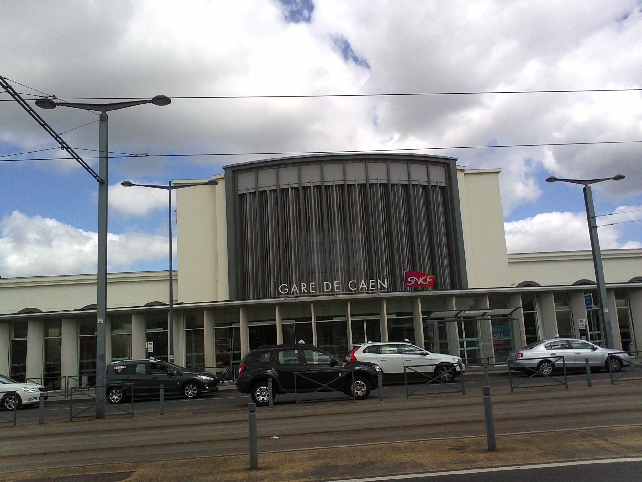 Caen railway station